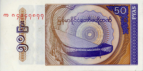 front of 50 pyas notes